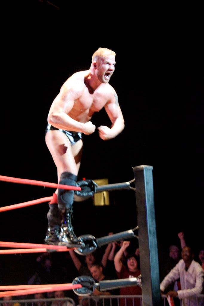 the wreslter matt morgan